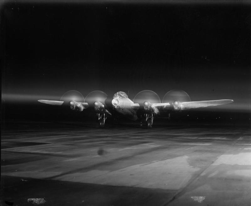 Royal Air Force Bomber Command, 1942-1945. An Avro Lancaster B Mark III of No. 619 Squadron RAF, caught in floodlights while running up its engines at night at Coningsby, Lincolnshire.